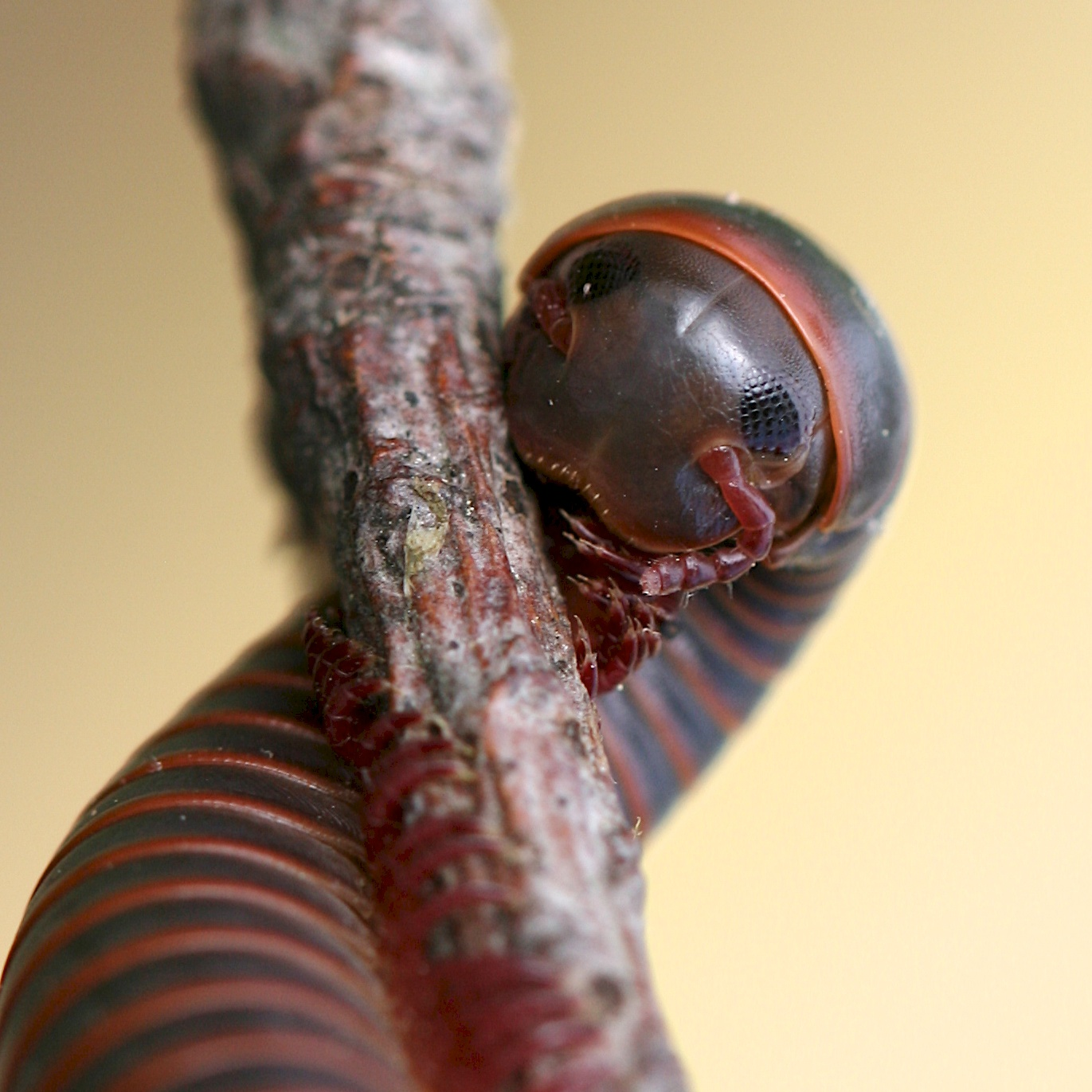 Narceus sp. Westport, Ontario, Canada